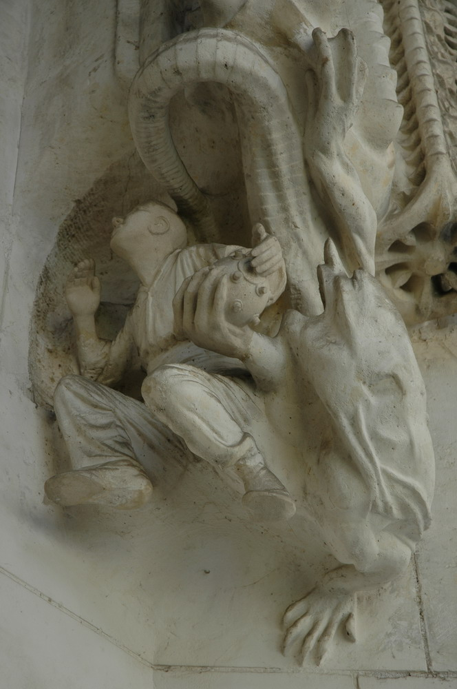 The Temple of the Sagrada Família - Cloister: Violence, the Temptation of Man